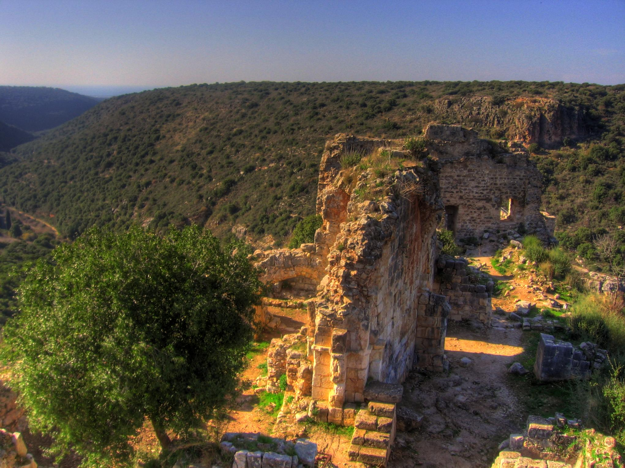 A photo from within the Monfort Castle located in the western Galilee, Israel. In the photo, taken from the fort's tower, one can see the administrative area and the church's wall.